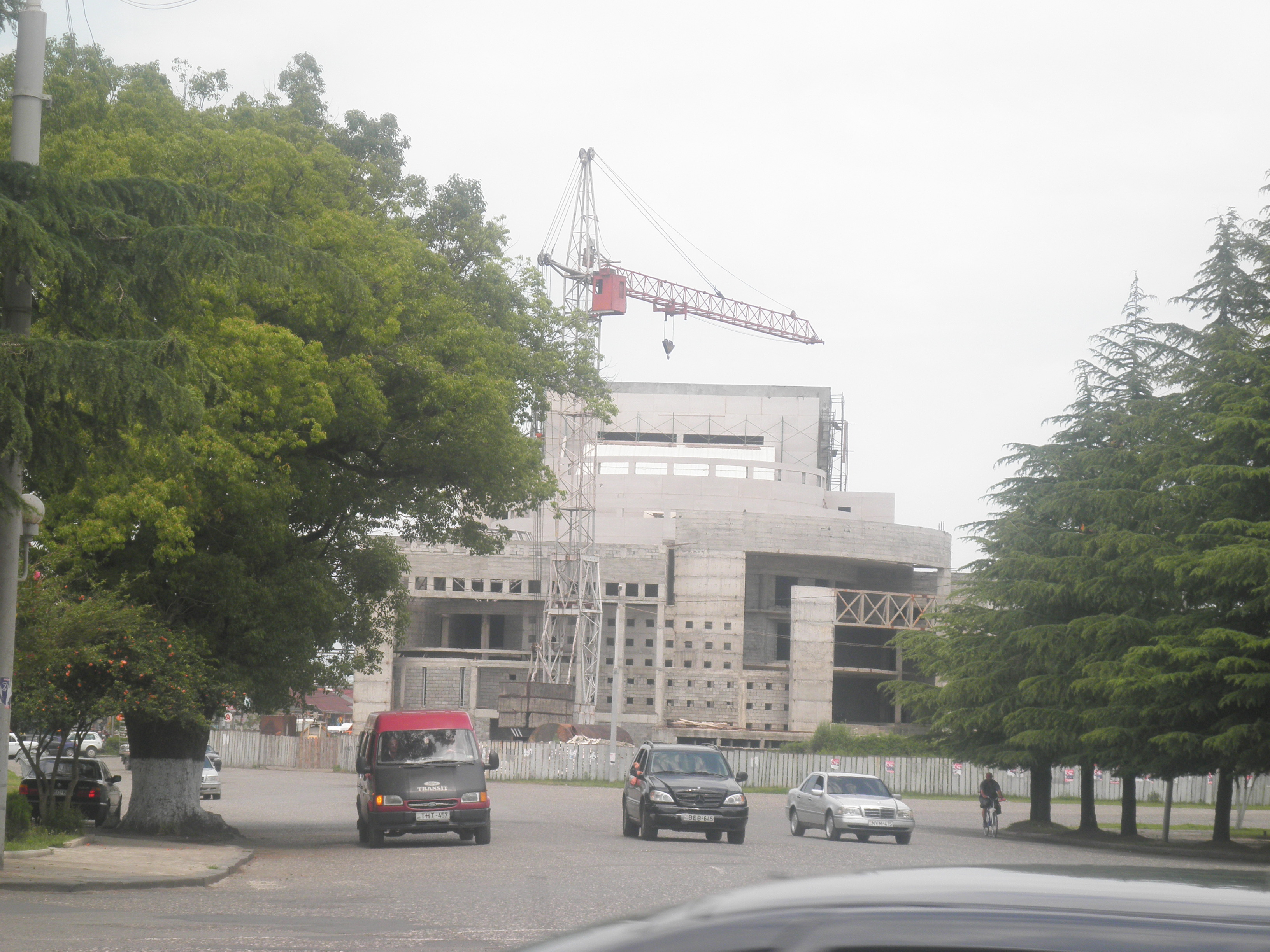 Poti, new building of Theatre